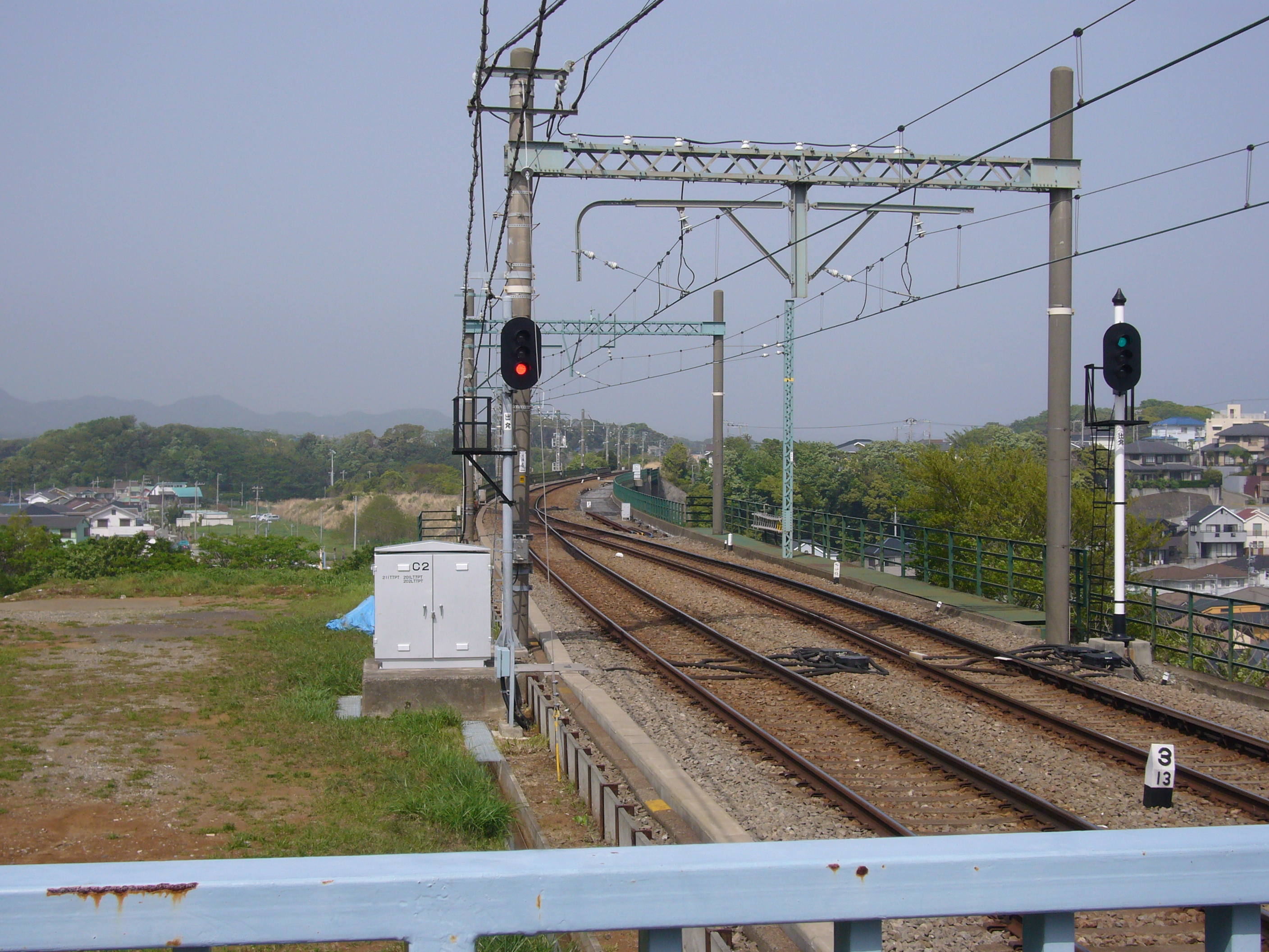 View at the end of the platform 2 of Keikyu Misakiguchi station toward Miura Kaigai